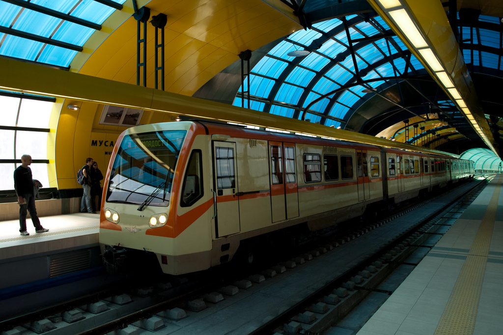 A train of the Sofia metro at Musagenitsa station. Author: Ivan Katzev (Nightpish)